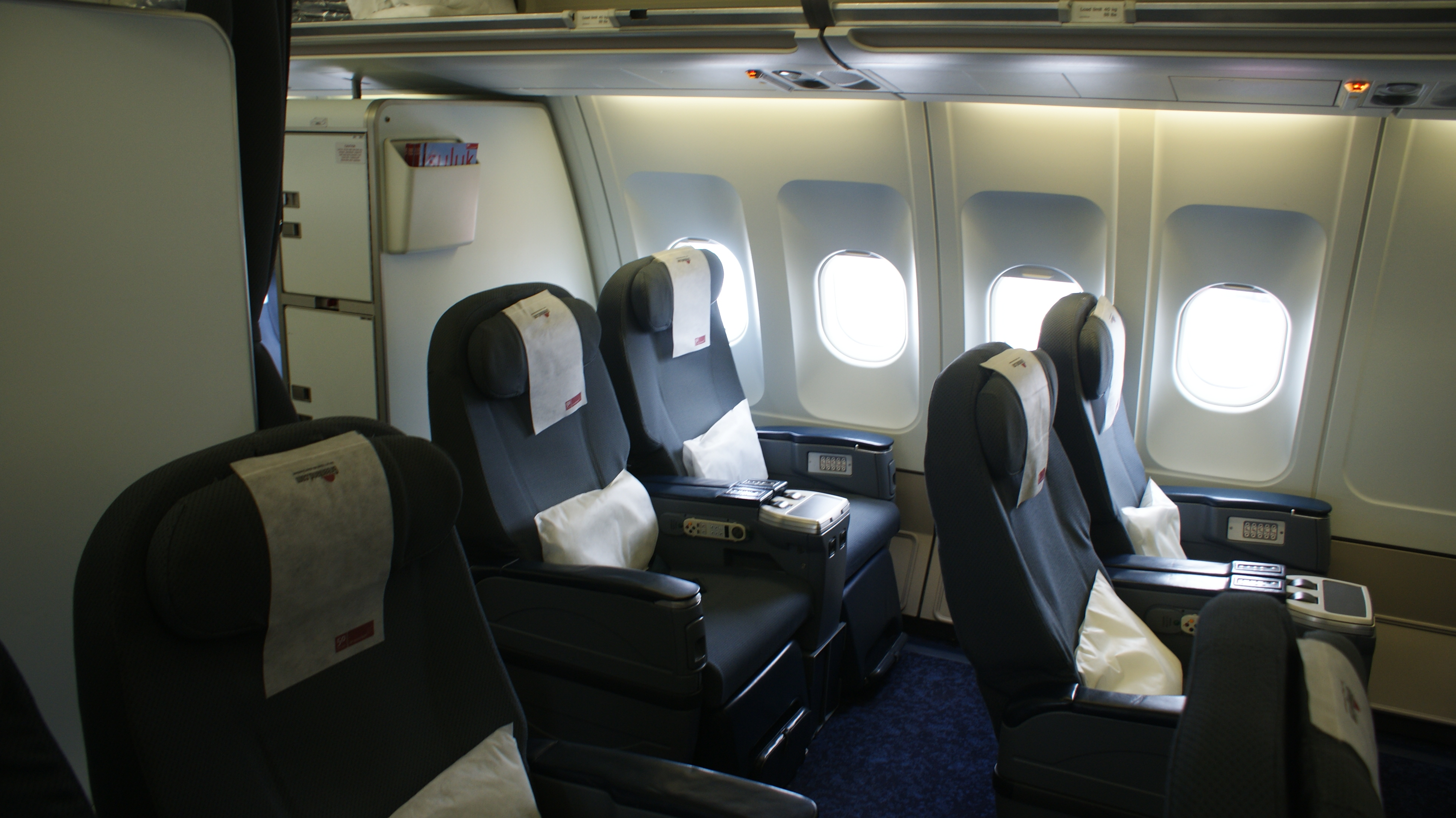 "Nanoq" Business Class seats in the Air Greenland Airbus A330-200 "Norsaq". Photographed during the Copenhagen-Kangerlussuaq flight.